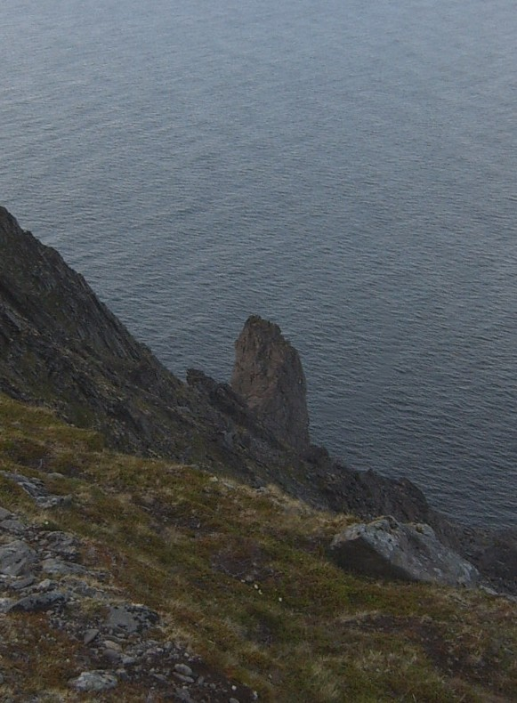 Norkapphornet, a sacred sami stone on the Nordkapp cliff